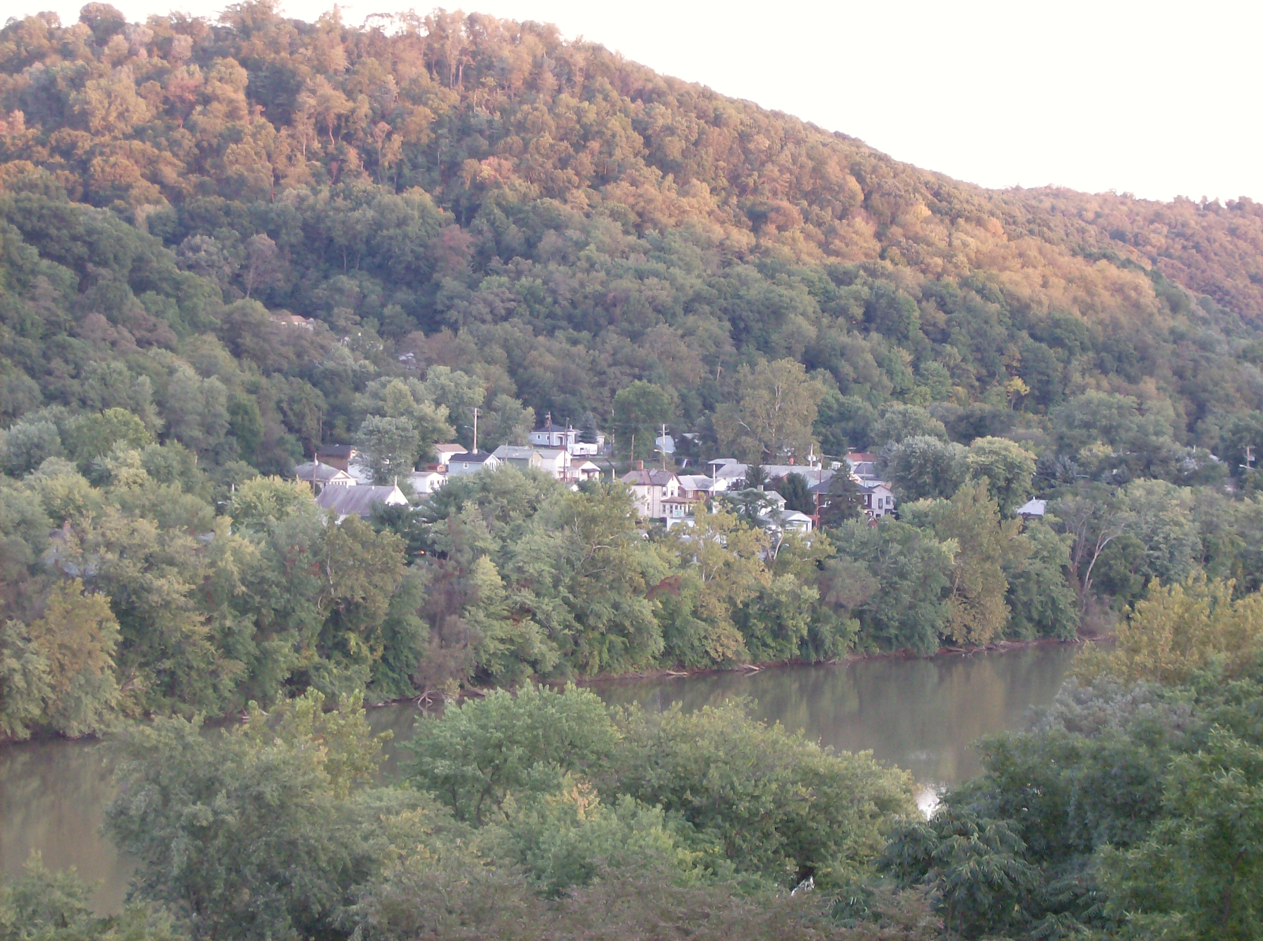 View of Eastvale, Pennsylvania from Skye balcony of Skye Lounge of Geneva College, looking over the Beaver River.